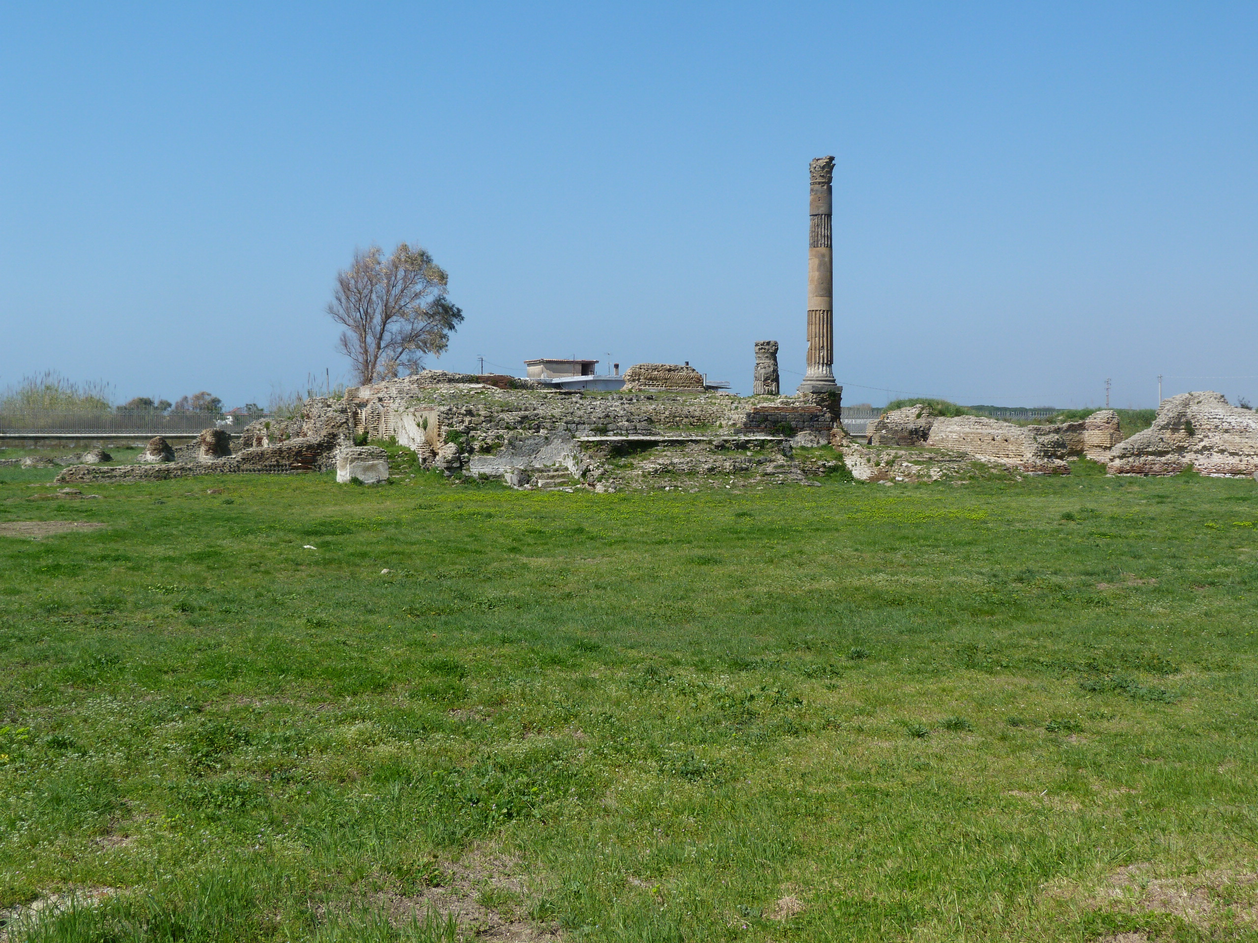 The ruins of Roman town of Liternum found in modern day Lago Patria.